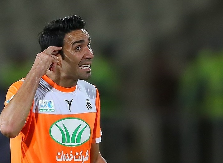 Javad Nekounam playing for Saipa